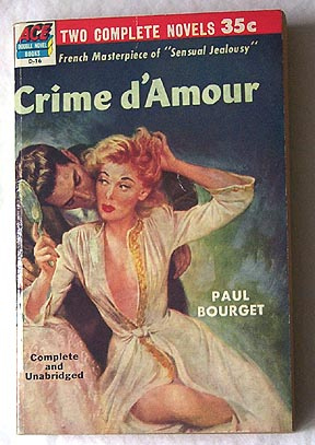 Paul Bourget: Crime d'Amour, cover by Harry Barton; 1953